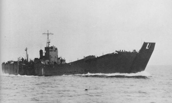 Japanese No.151 Landing_Ship. in full speed trial off Yugeshima.